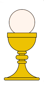 Eucharist